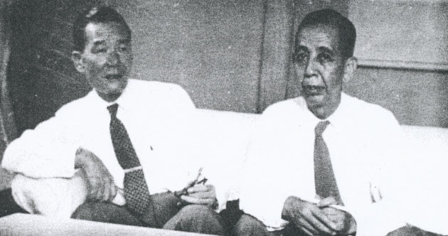 Nobusuke Kishi and Shiina Etsusaburō circa 1942.